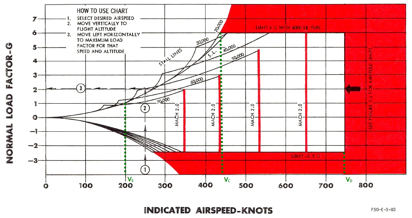 F-104A V-n diagram performance envelope